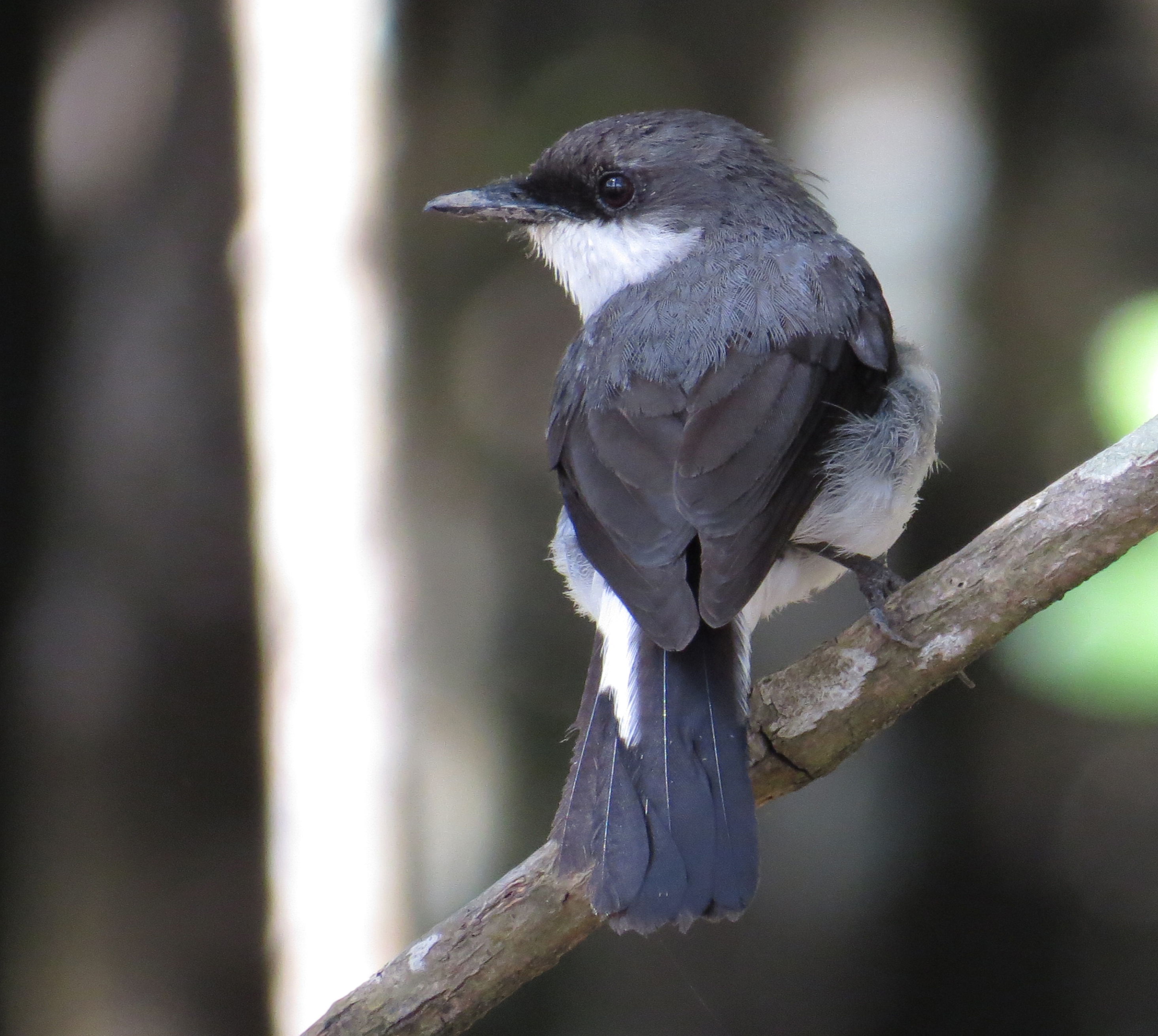 Mangrove robin (Peneoenanthe pulverulenta) dorsal view depicting white outer margin to tail. Taken at the esplanade Cairns, Queensland, Australia.